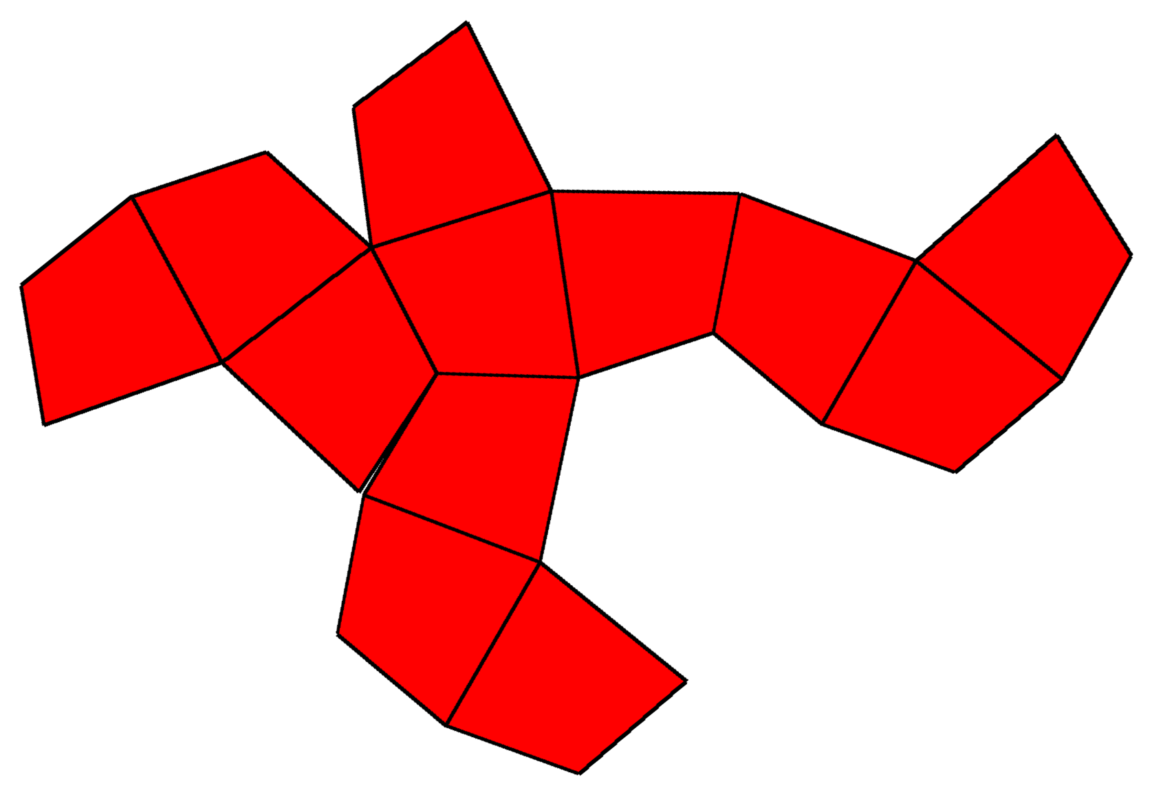 trapezohedral dodecahedron net